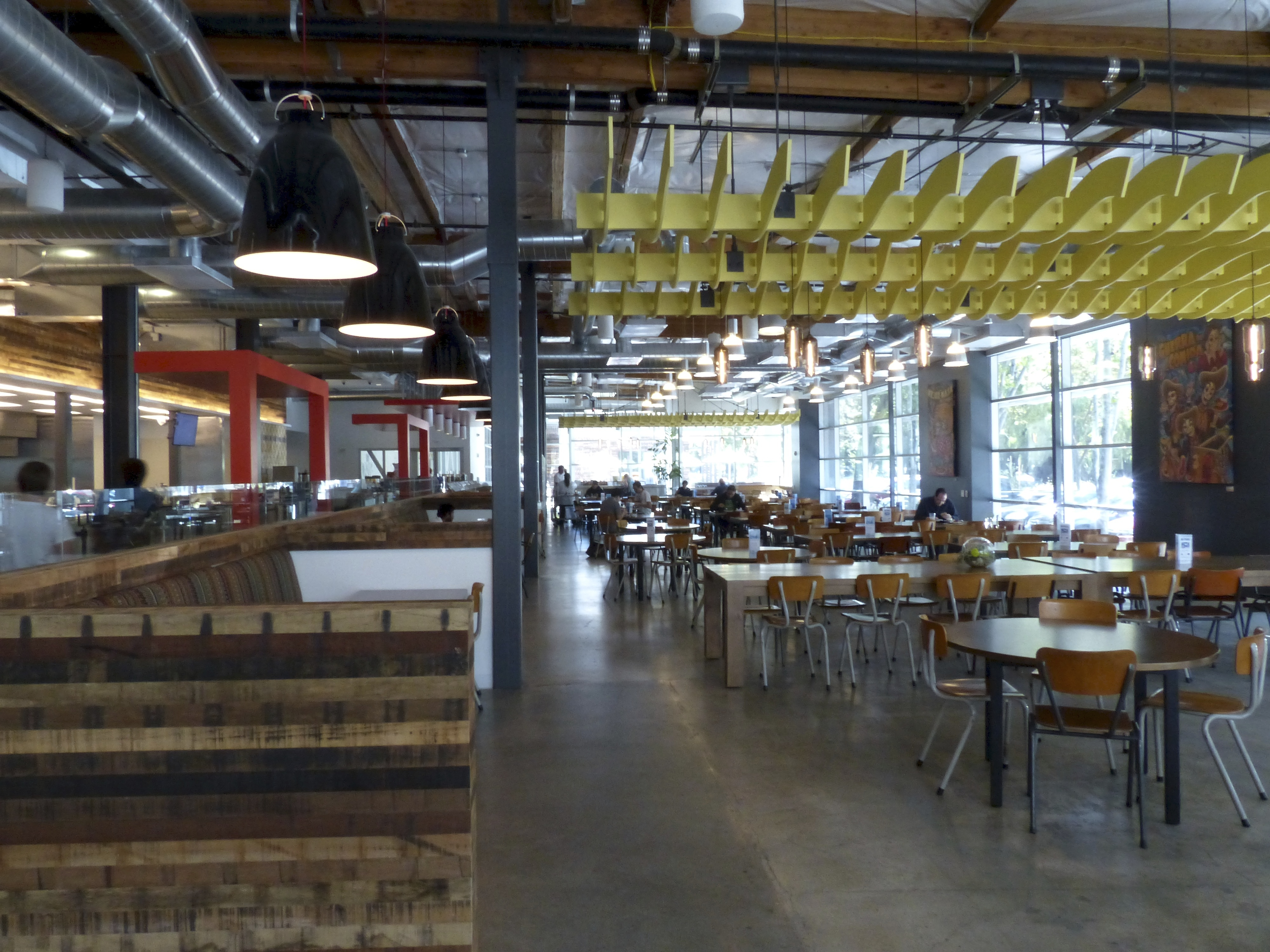 Another one of Google HQ cafeterias.